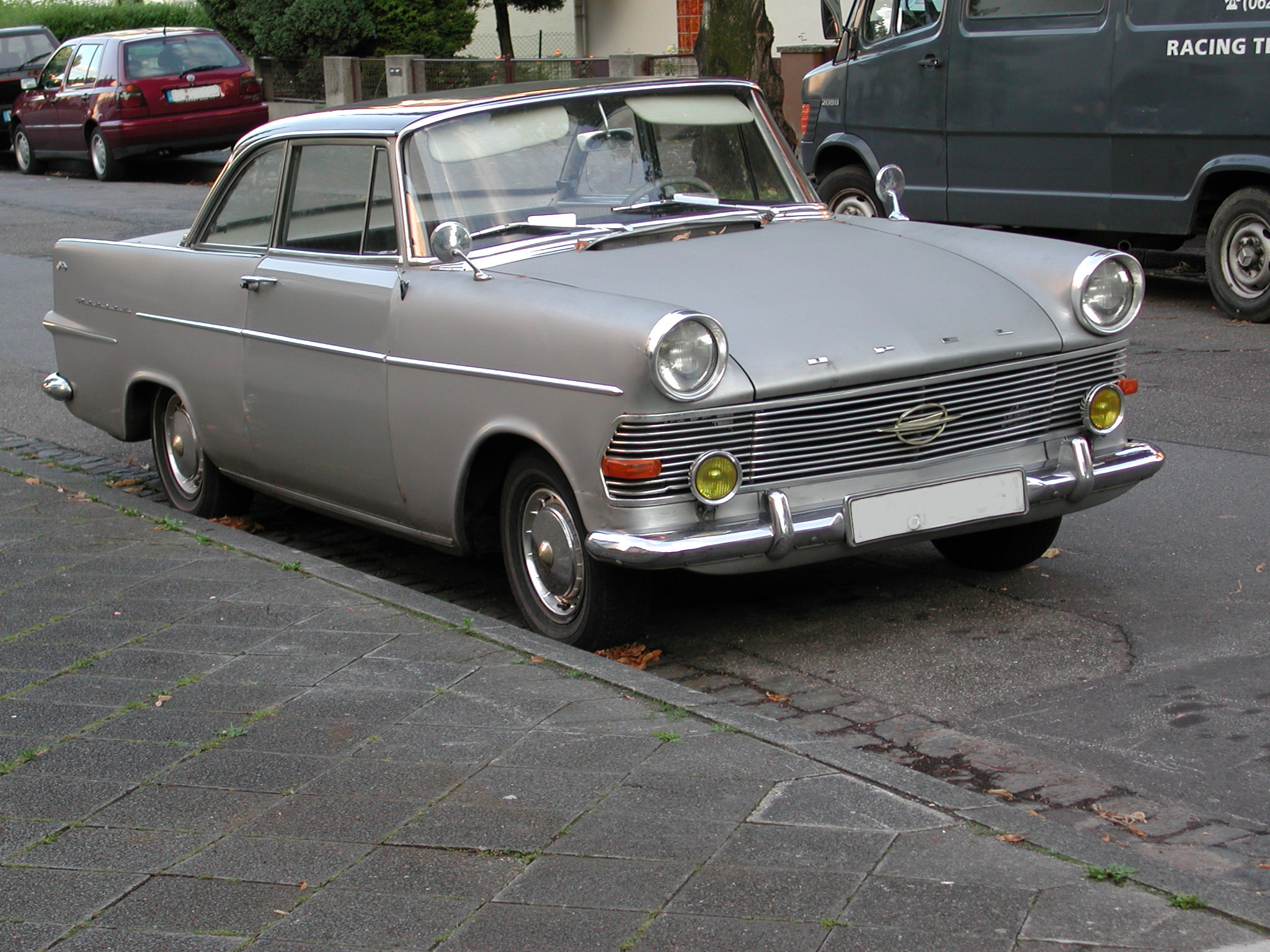 Opel Rekord P2 Coupé, front view